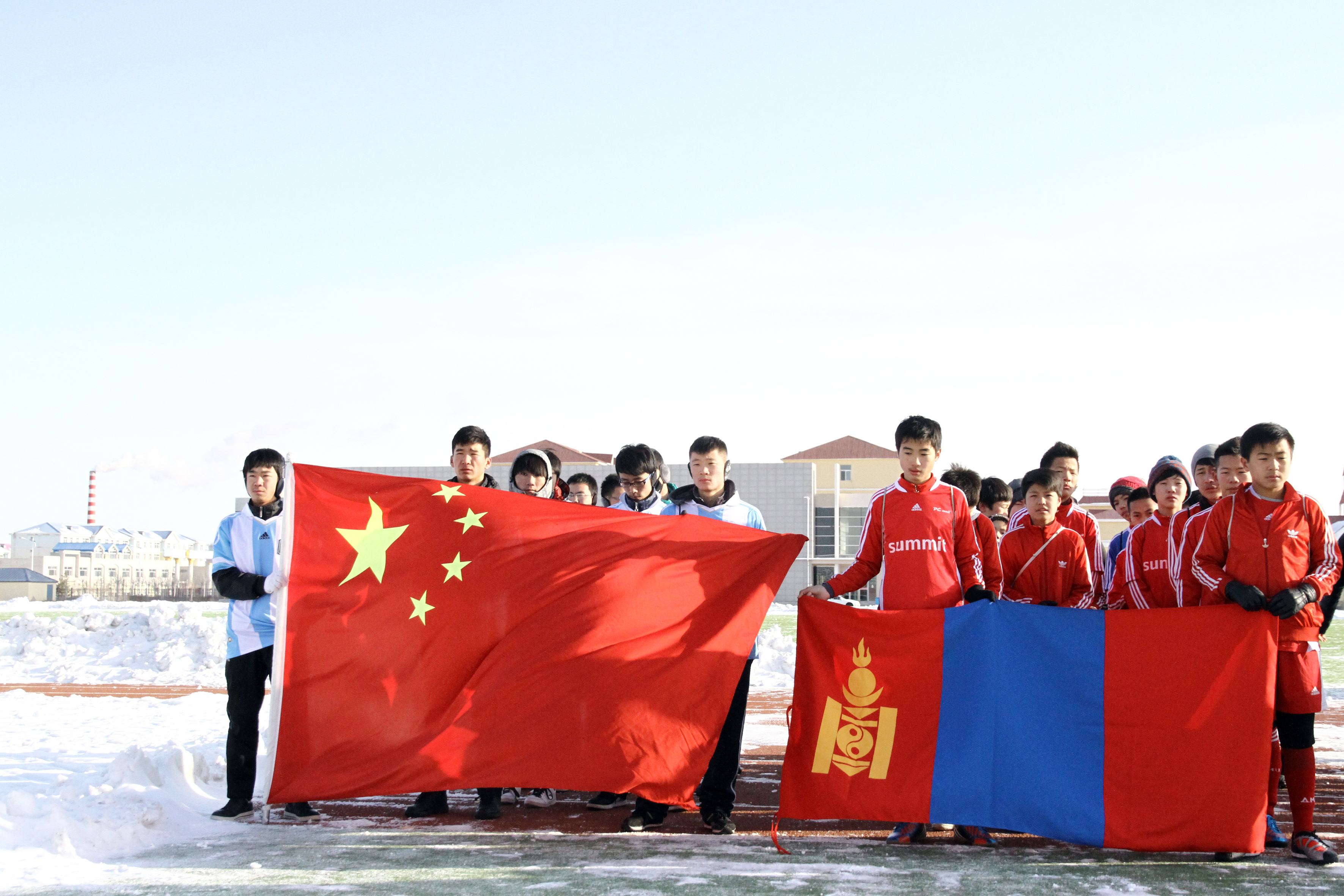 2012.11.11. БНХАУ-ын Эрээн хотод болсон олон улсын тэмцээний нээлтийн ажиллагаа.